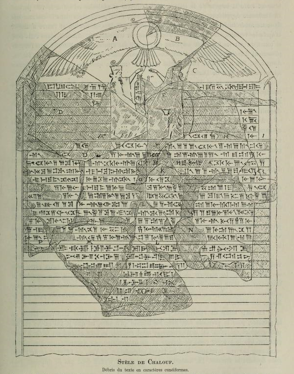 The Stela of Shaluf, issued by Darius I. Reign of Darius I, 27th Dynasty, Late Period.